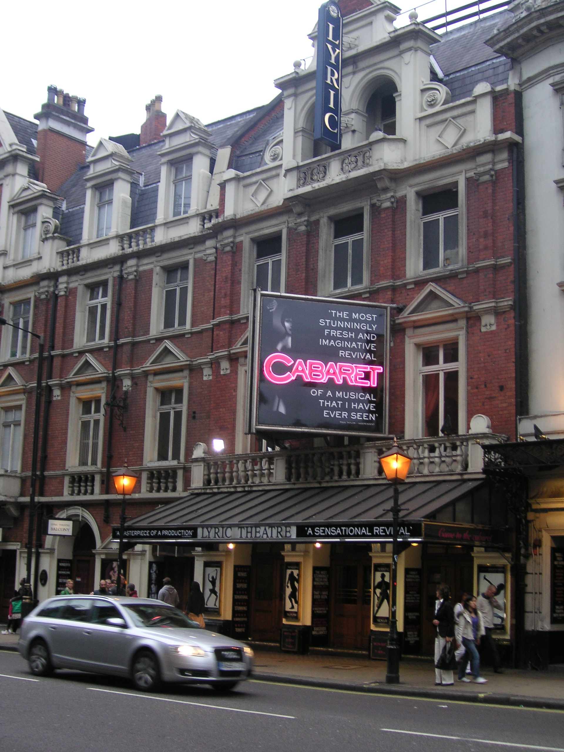 The Lyric Theatre, London, England.